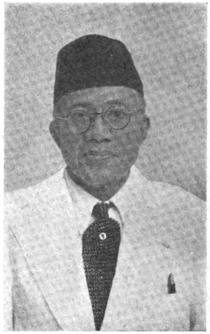 Portrait of Dendadikusuma as the minister of economy of Pasundan.